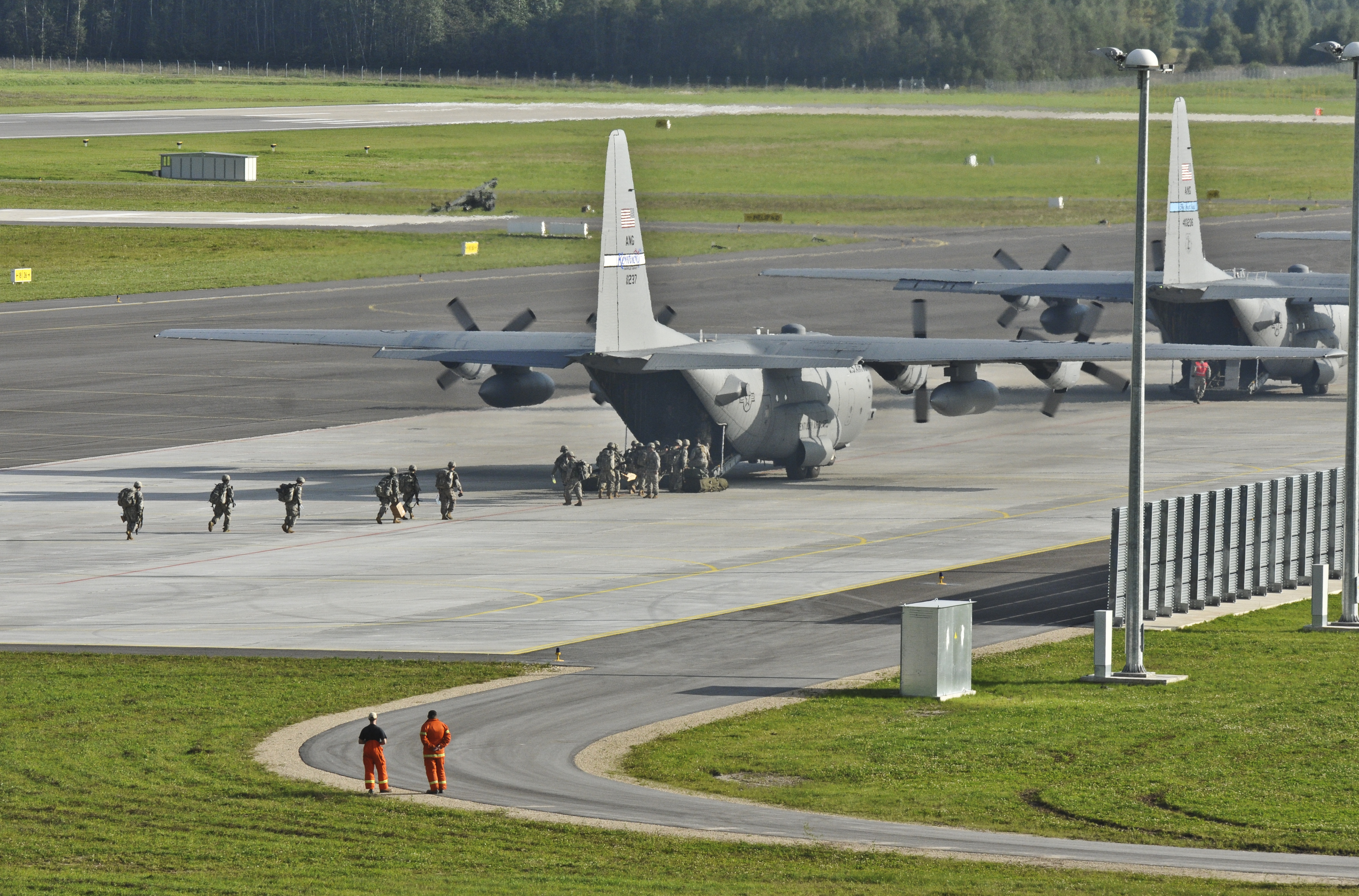 The 12th Combat Aviation Brigade, 173rd Airborne Brigade, 2d Cavalry Regiment and other allied forces conduct airfield seizure training at Lielvarde Airbase, Latvia, in support of Exercise Steadfast Javelin II Sept. 7, 2014. Steadfast Javelin is a NATO exercise involving over 2,000 troops from 10 nations and focuses on increasing interoperability and synchronizing complex operations between allied air and ground forces.